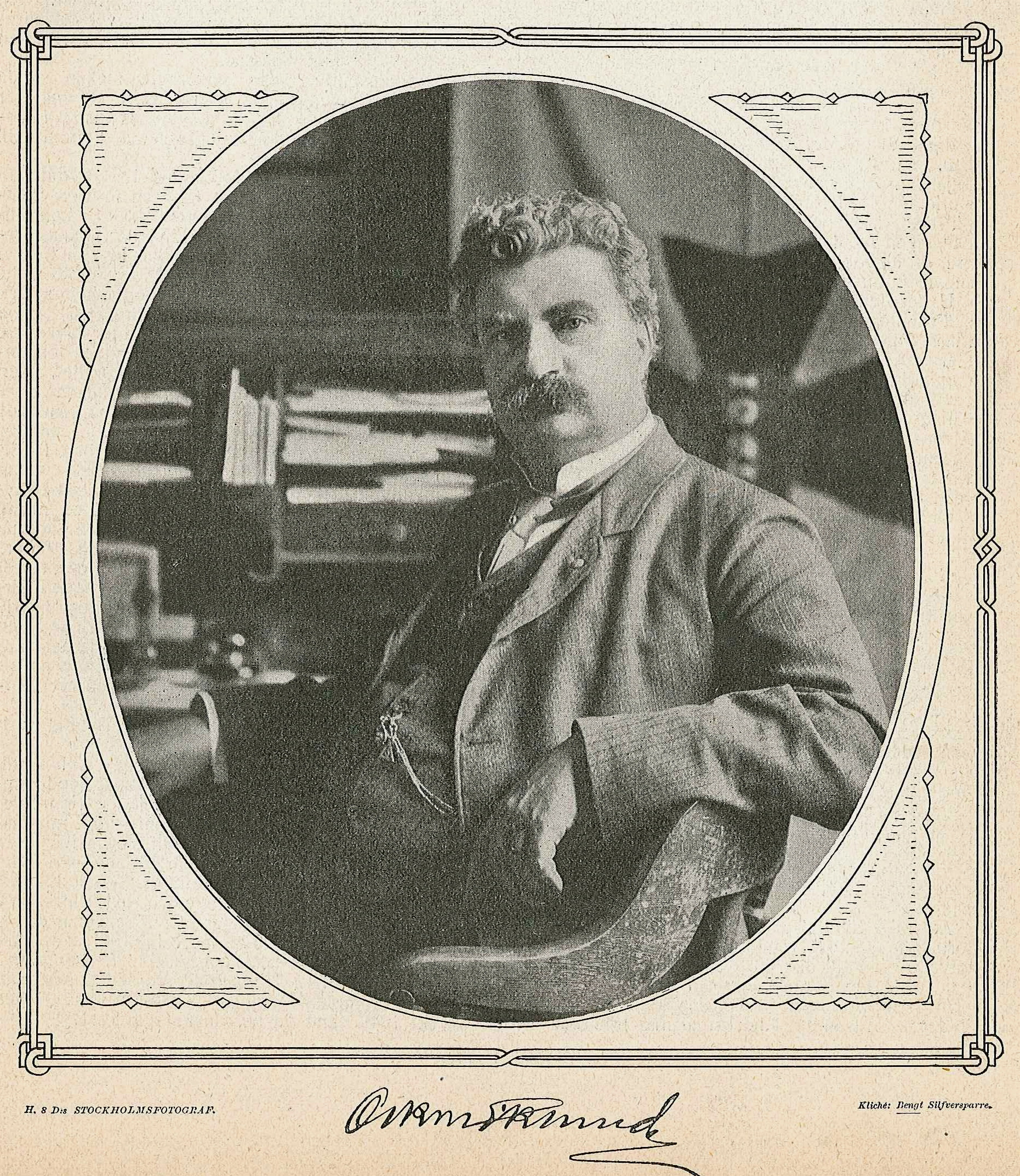 Oskar Eklund (1861-1940), Swedish temperance movement activist, publisher and member of parliament.